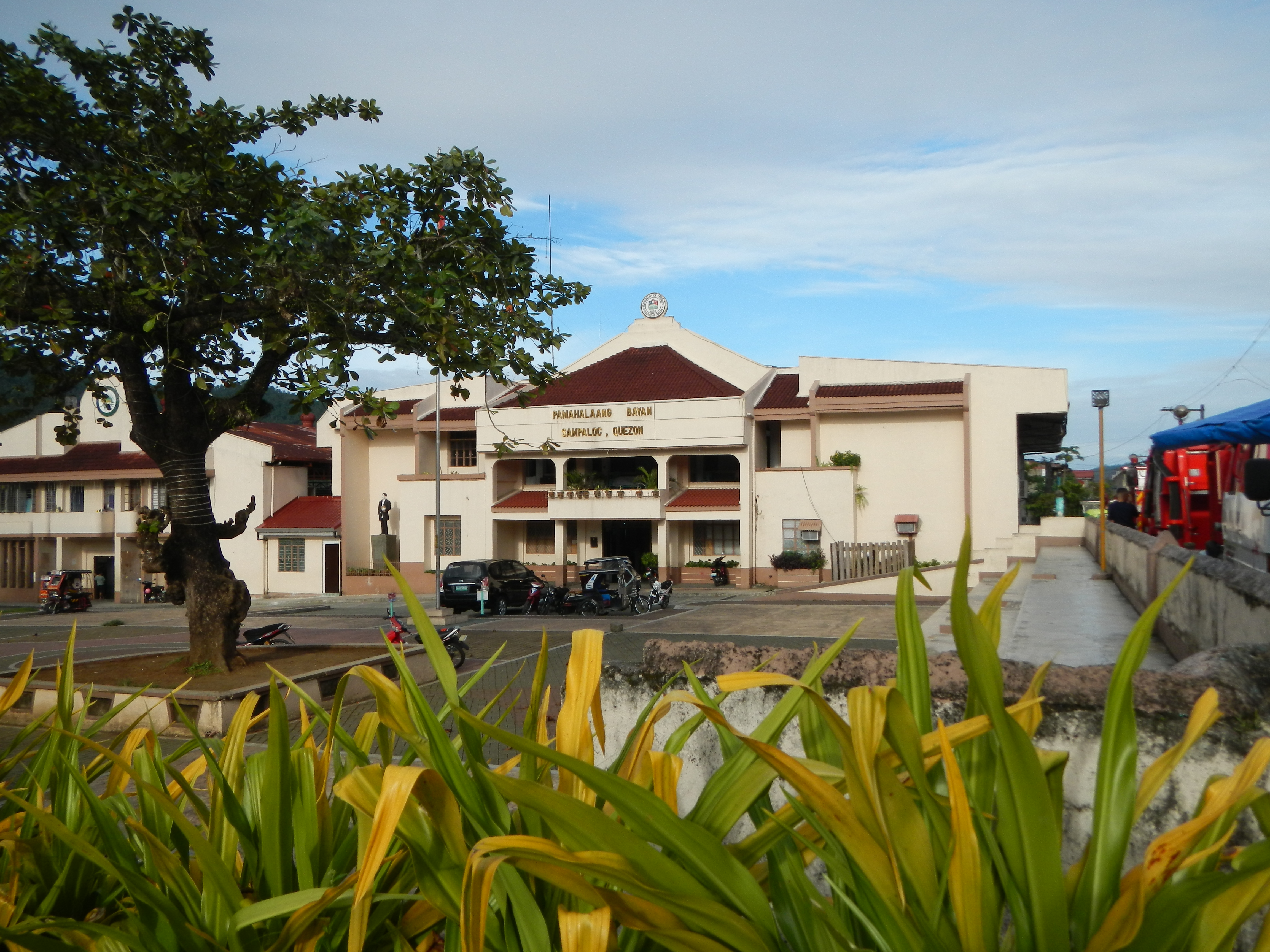 Upload Wizard photos -- (General description, 3-dimension angle by angle photography of this town, church & landmarks) -- of - Barangay San Roque Welcome sign and Map, Bulwagang Bayan, the Covered Basketball Court, Multipurpose Center part of the - Sampaloc Municipal Hall, the official image and flag seal and logo, from the Town Hall of - Sampaloc, Quezon[h- (a municipality in the province of Quezon, Philippines situated in a valley completely surrounded by high evergreen hills in the heart of the Sierra Madre Mountains, a fifth class municipality with an area of 10,478 hectares or 25,890 acres; 2010 census, a population of 13,107 people, which is lesser than the 2007 Census of 13,534 people; politically subdivided into 14 barangays;[1] Coordinates: 14°11'26"N 121°37'7"E [2] [3]).